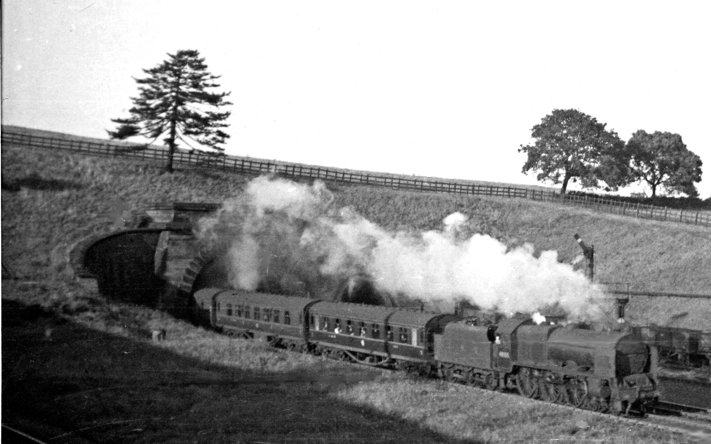 Up express emerging from Linslade Tunnel. View northward, towards Bletchley and the North: WCML. Linslade Tunnel was unusual in having single bores added later on each side of the original (1838) double bore: the Down Fast line runs through the western single bore (off to the left) and the eastern single bore takes the Up Slow line. The central double bore takes the Up Fast - on which the train is seen - and the Down Slow. The Up express is headed by Fowler 'Royal Scot' (not yet rebuilt) No. 46155 'The Lancer' (built 7/30, rebuilt 8/50, withdrawn 12/64).